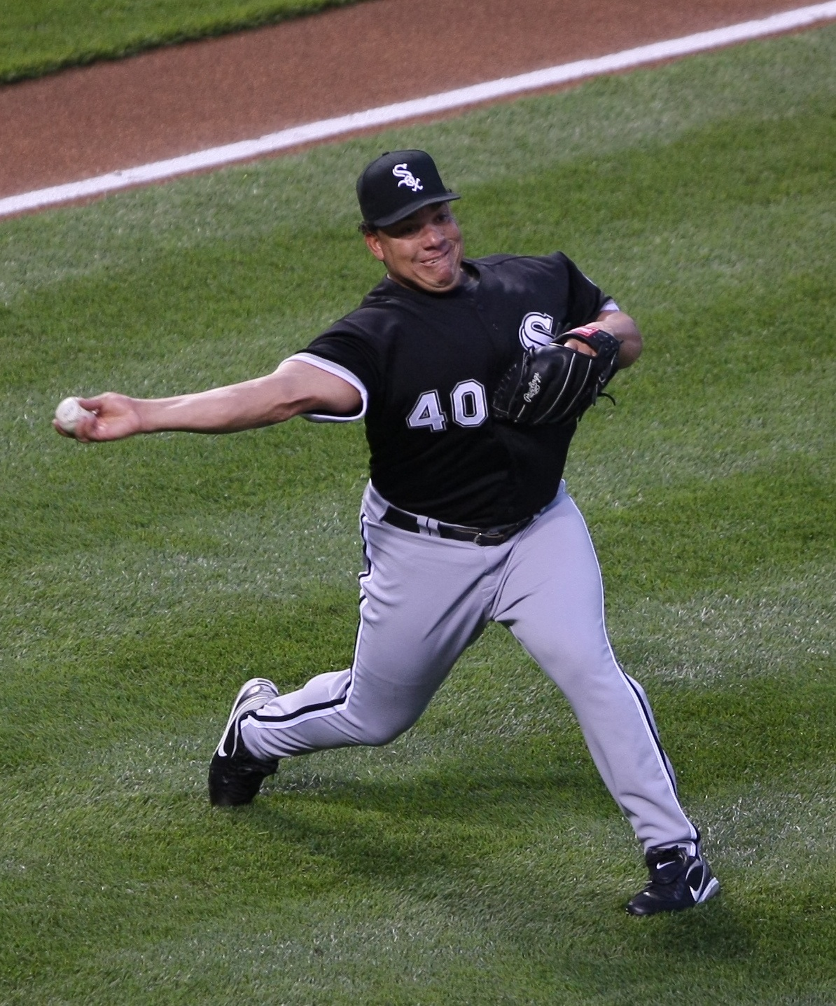 Bartolo Colón pitching for the Chicago White Sox in 2009.